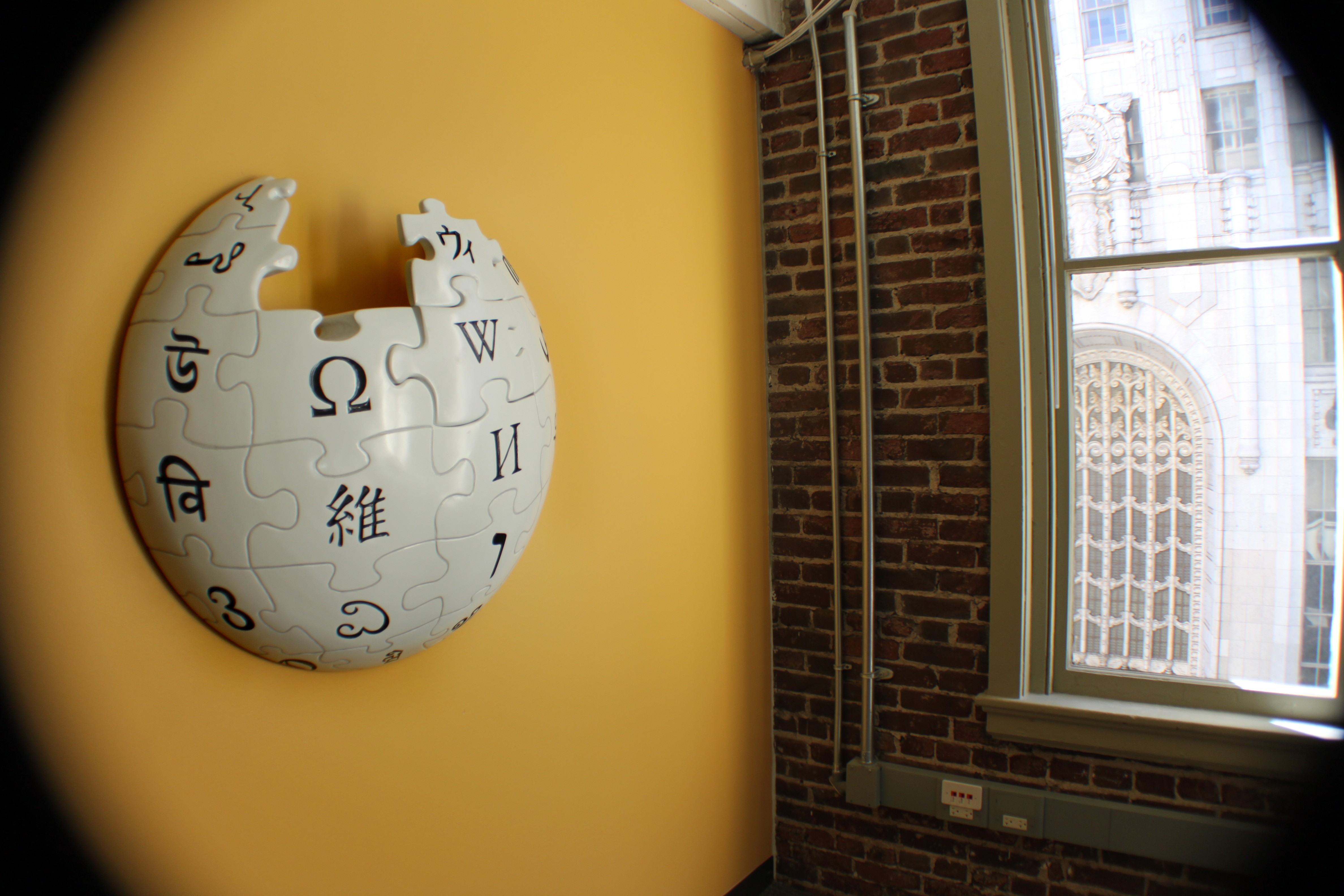 Wikipedia logo 3D puzzle in the new Wikimedia Foundation office.